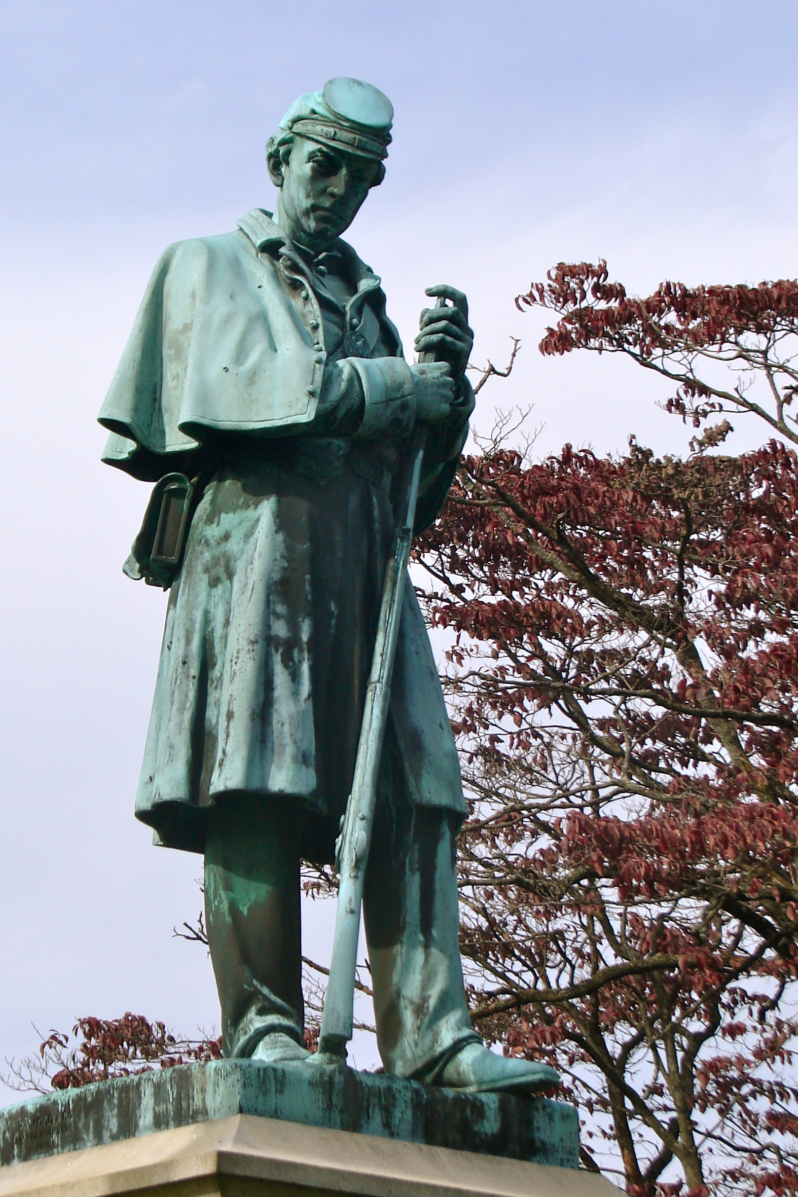 Civil War Soldier, sculpture by Milmore, Martin (1844-1883). Robert Wood & Company, founder. Cast 1872. Dedicated Sept. 17, 1873. IN Chester Rural Cemetery, Chester, Pennsylvania. Appears to be a copy or variation of standard civil war statue, see e.g. File:Interior of Milmore's studio, showing design of soldier's monument for the city of Roxbury, from Robert N. Dennis collection of stereoscopic views crop.jpg